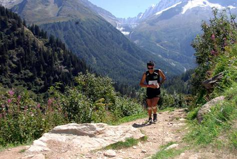 Kilian Jornet, during his winning run at 08 UTMB